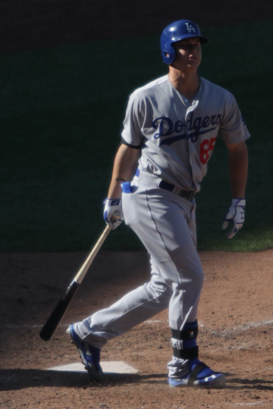 Joc Pederson for the 2014 Los Angeles Dodgers against the 2014 Chicago Cubs at Wrigley Field.